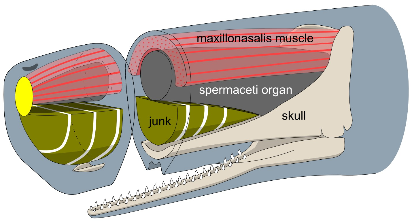 The anatomy of a sperm whale's head.